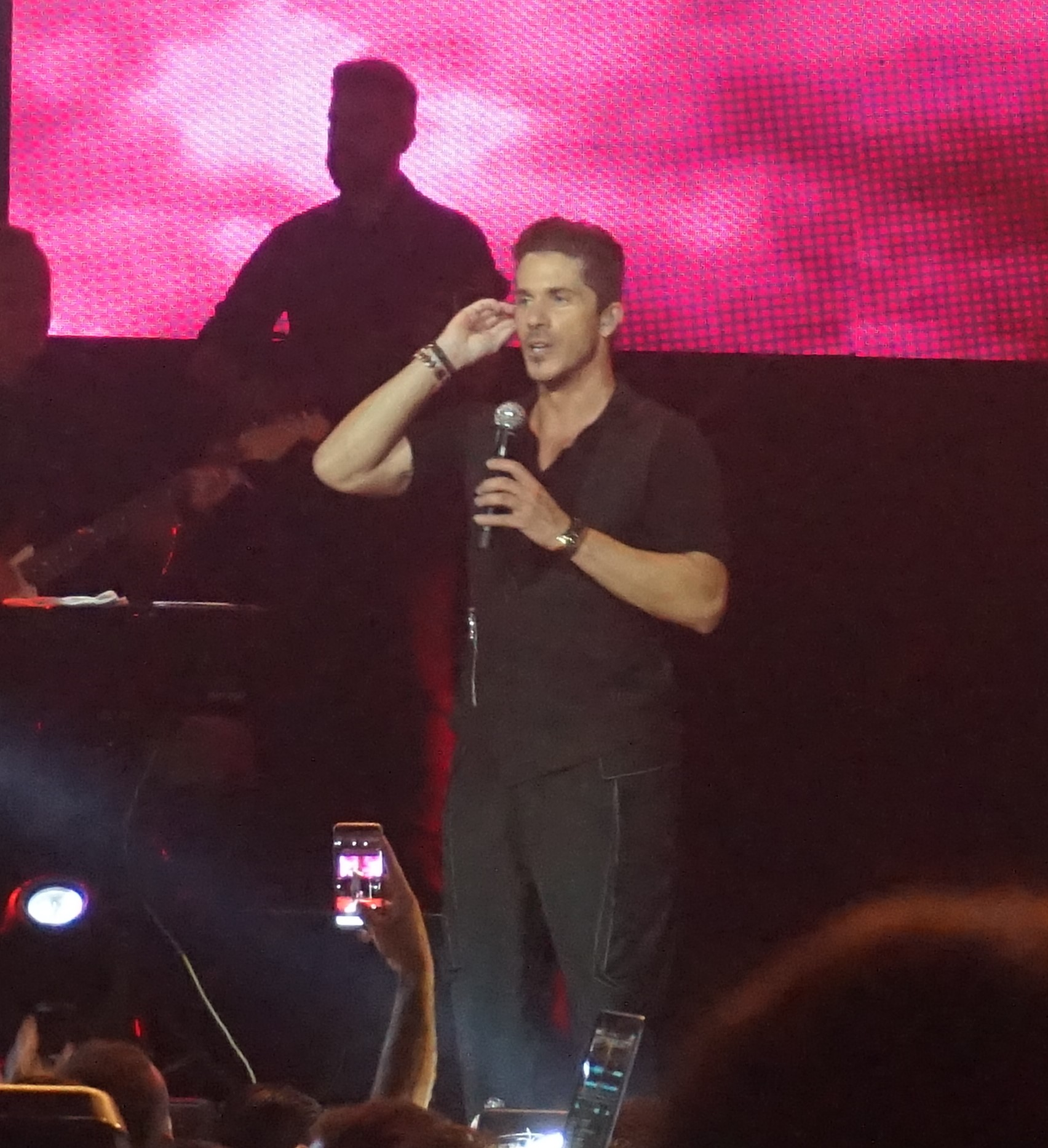 Nikos Oikonomopoulos, Breeze_Summer_Club_Limassol